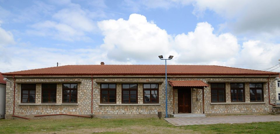 Folklore Museum in Papayianni Florina